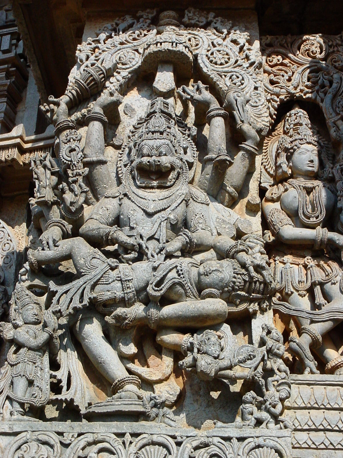 Narasimha. Hoysaleshvara Temple, Halebid Vishnu's lion avatar kills the wicked demon Hiranyakashipu.